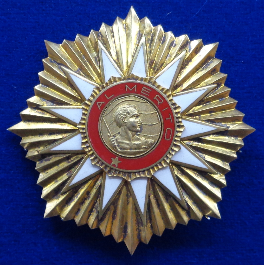 Order of May, star of Grand Cross. Argentina. The exhibition of the Tallinn Museum of Orders of Knighthood, Estonia.